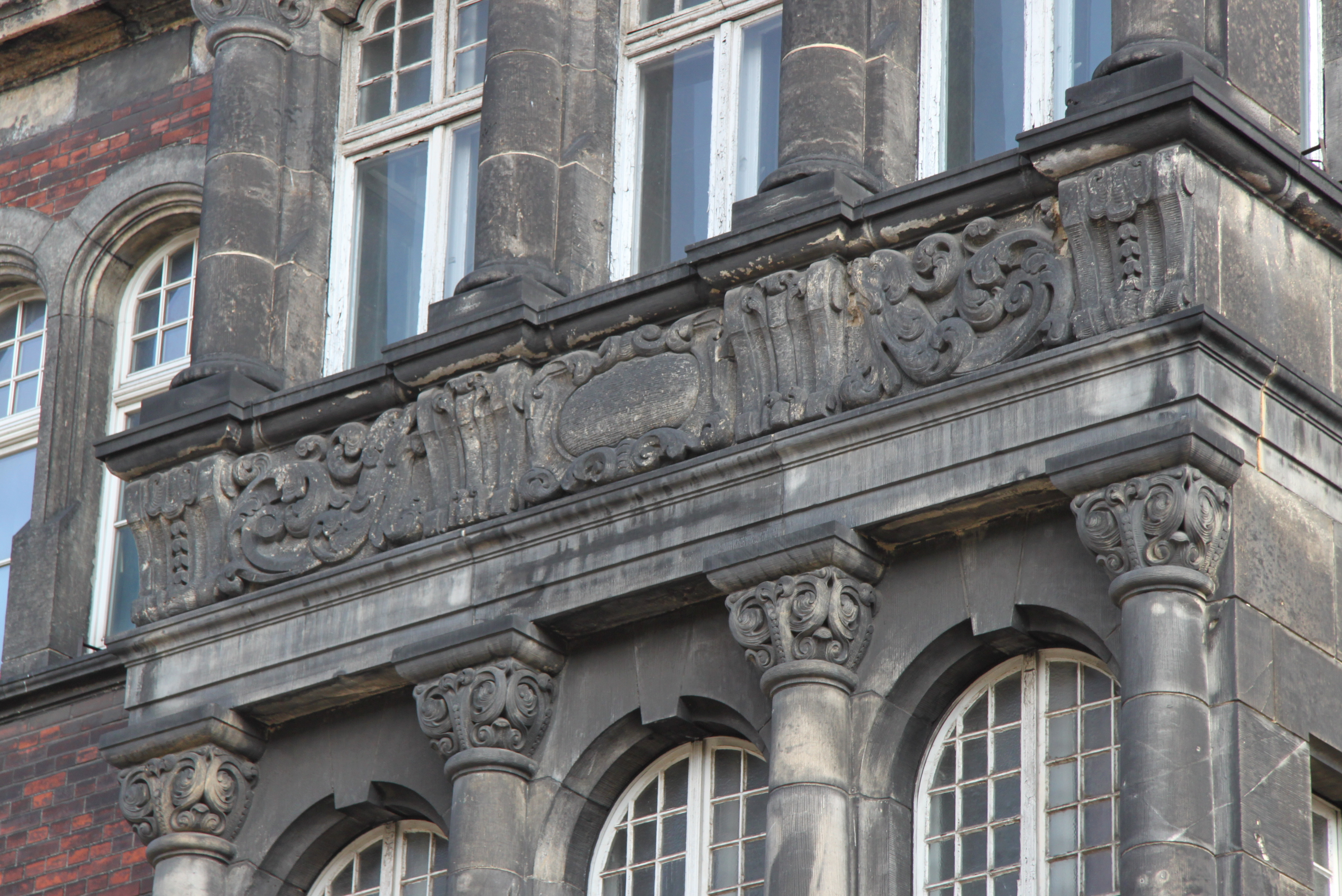 Main post office in Bytom.